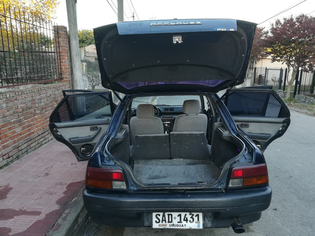 trunk. Daihatsu Applause. maletero